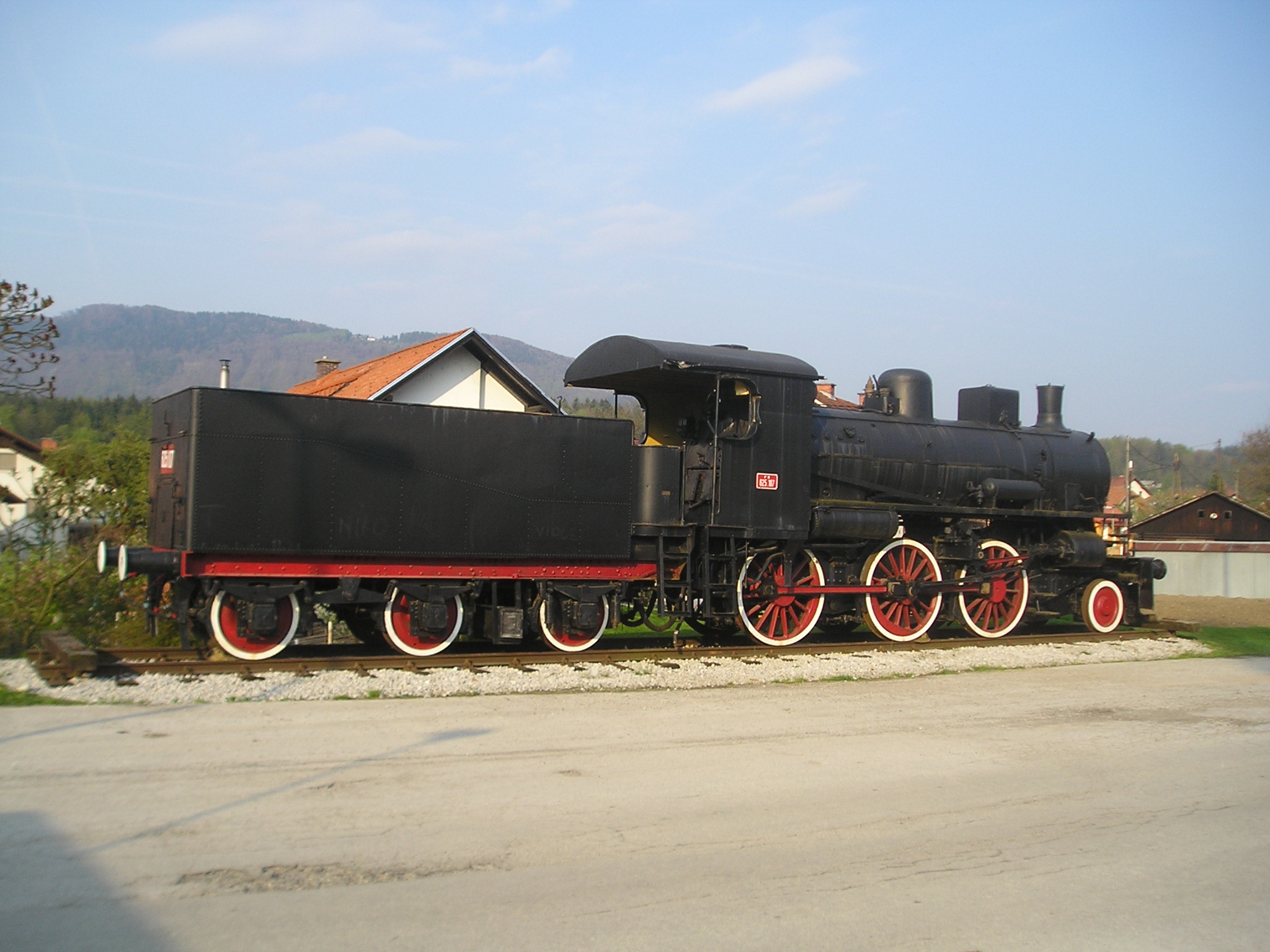 Normal gauge steam locomotive FS 625.107 at the train station in Šmartno ob Paki, Slovenia. The locomotive was made in 1914 by Construzioni Meccaniche di Saronno, Italy, serial nr. 490. Axle arrangement: 2-6-0 (1C-h2), length: 16.695 m, height: 4.12 m, weight: 63.2 t, axle load: 14.4 t, power: 580 kW, max. speed: 80 km/h, diameter of driven wheels: 1510 mm, diameter of non-driven wheels: 860 mm, steam pressure: 12 bar, diameter of piston: 490 mm, piston stroke: 700 mm, lattice surface: 2.42 m², heated surface: 108.5 m². In 1985 the locomotive arrived in Slovenia from the museum in Campo Marzio (Trieste). Initially it was left abandoned at the Maribor Studenci station. In 2005 it was handed to the Railways and Rail Exhibits Fan Club Celje (brochure in English and German), hauled to Šmartno ob Paki and renovated by local enthusiasts. Pospichal Lokstatistik. More info. More photos: 1 and 2. A bit of history (in Slovenian only, pp 30-31).